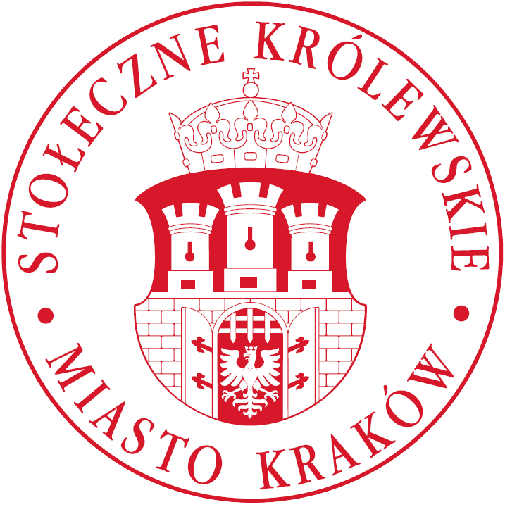 The official symbol of Royal Capital City of Cracow.